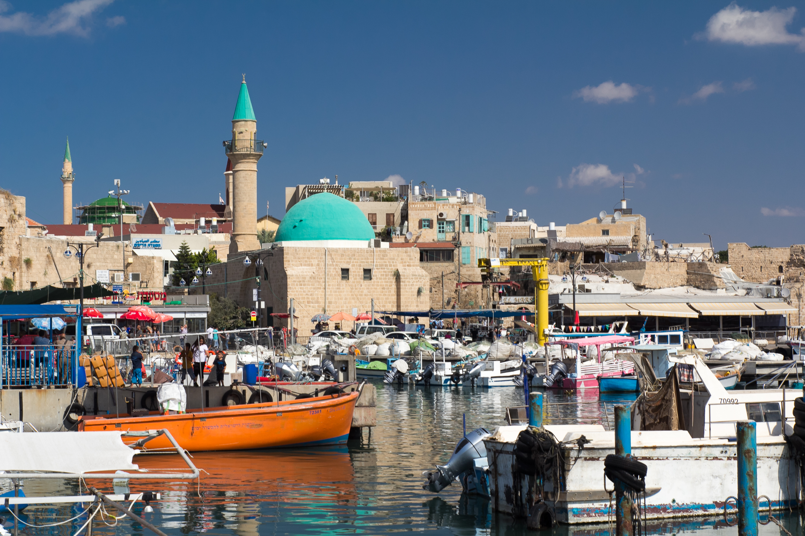 Port of the old city of Acre, with the El Bachar Mosque in the background